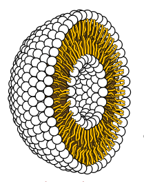 Cross-section through liposome. = water-attracting ends of molecules; = water-repellent ends.